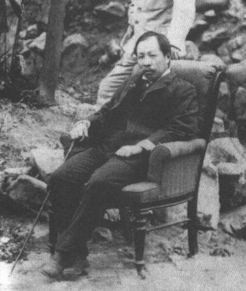 Wang Pixu (1871年－1943年), a Chinese politician